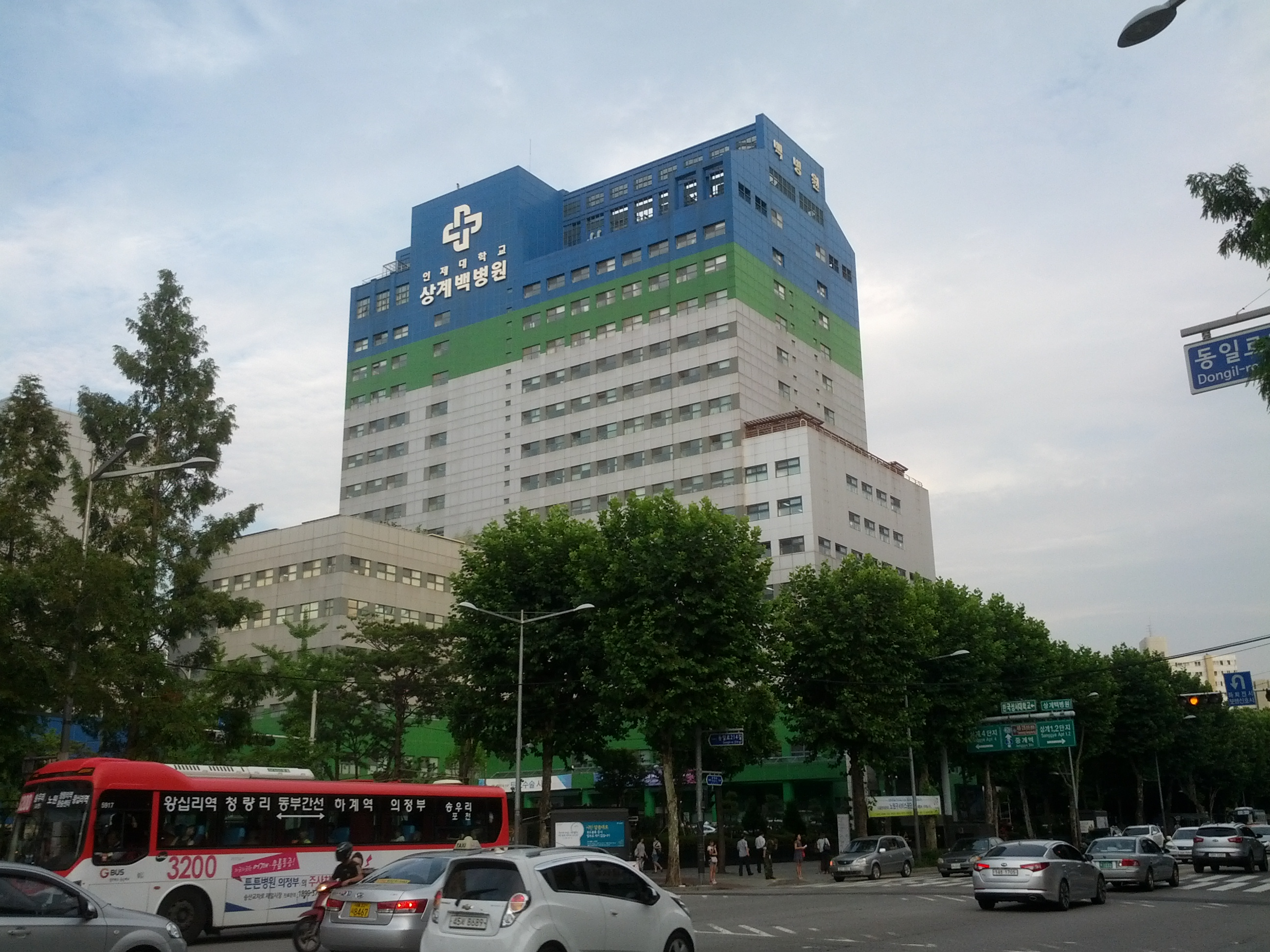 Inje University Sanggye Paik Hospital, Nowon-gu, Seoul